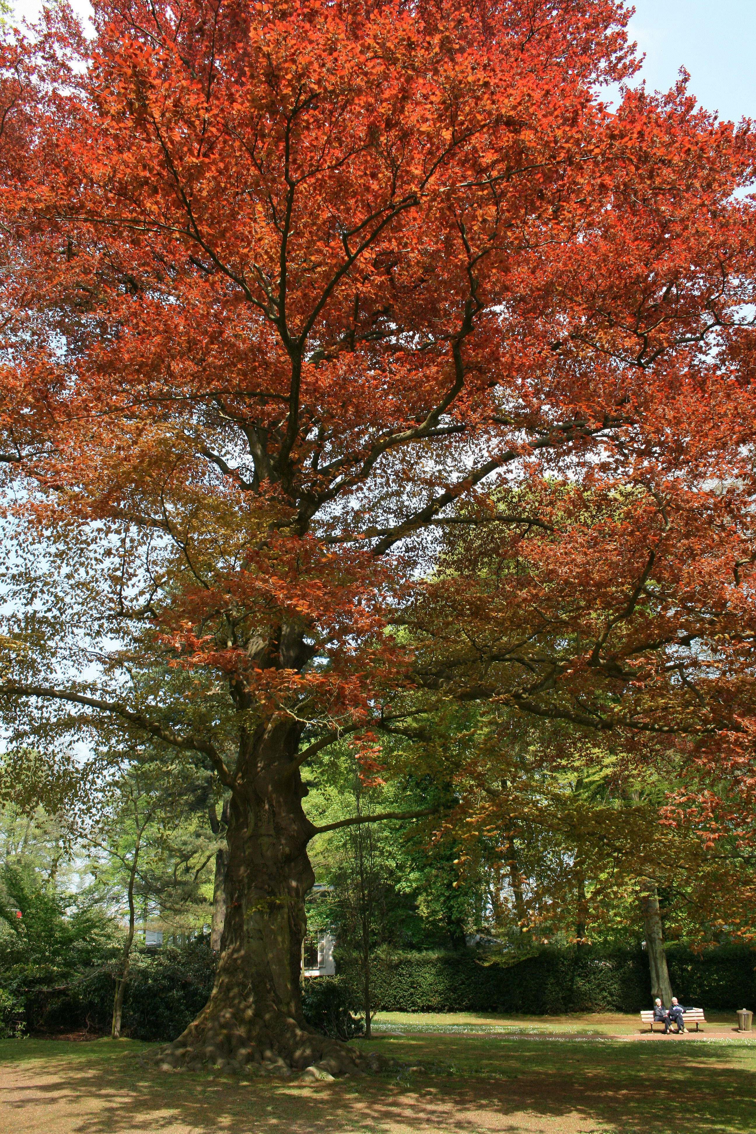 Copper Beech.